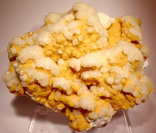 Calcite, Smithsonite Locality: Monte Cristo mine ("Monte Christo" mine), Rush, Rush Creek District, Marion County, Arkansas, USA (Locality at ) AN AESTHETIC CABINET specimen of botryoidal, yellow-orange, cadmium-rich smithsonite preferentially coated by sharp, colorless calcite rhombs. The calcite rhombs look like snow draping a mountain side, giving a dramatic look. From the Ed Ruggiero Collection, who personally collected this stunning piece from the Monte Cristo Mine in Arkansas in September, 1975! His card says that this is the largest piece, that he collected that day. This is a unique pocket, and a great combo for the locality. I have not seen such specimens except from this seemingly onetime find 30 years ago. 11.7 x 9.3 x 5.2 cm